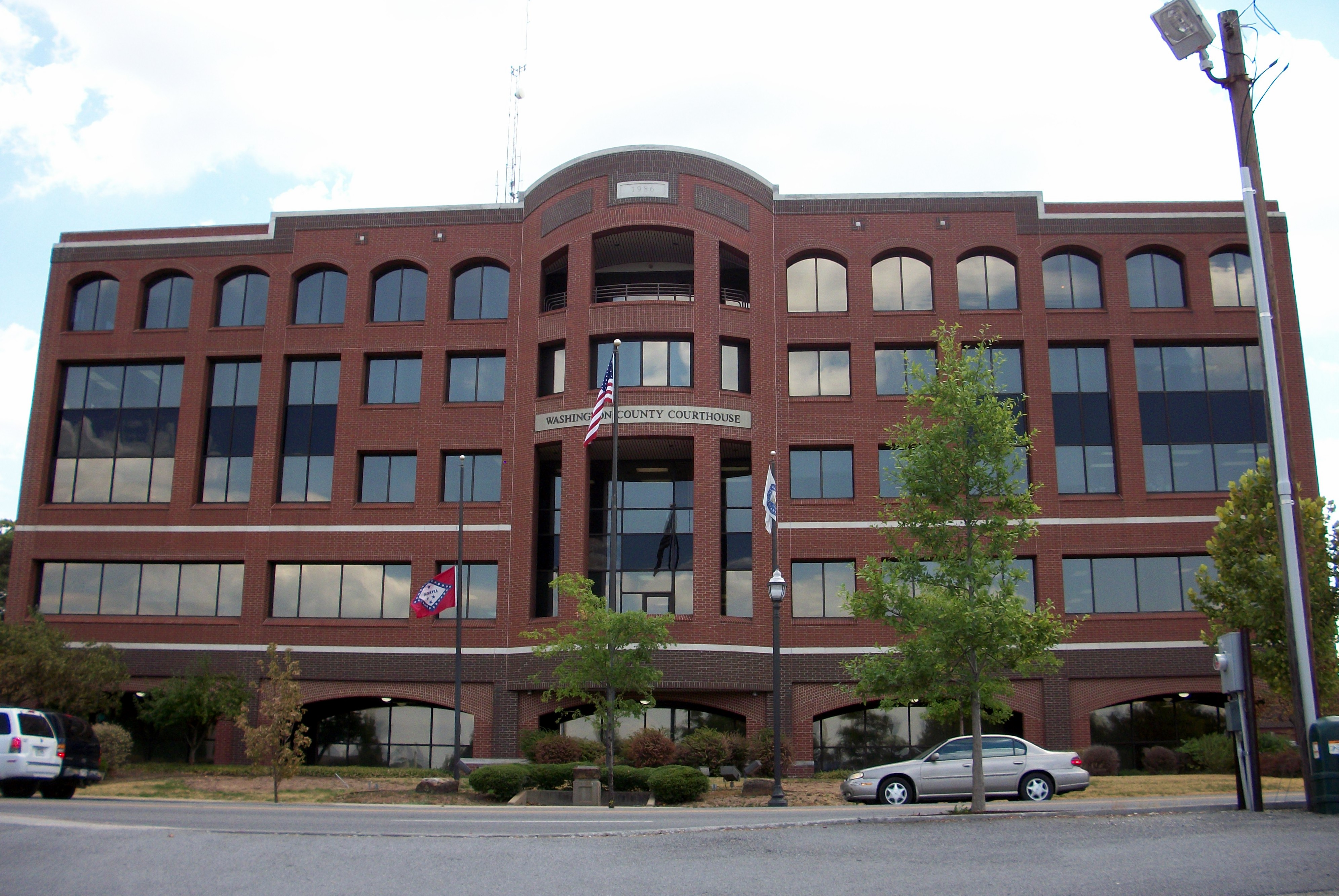 Washington County Courthouse in Fayetteville, Arkansas. This building began as the First South Centre and became the Washington County Courthouse in 1994.